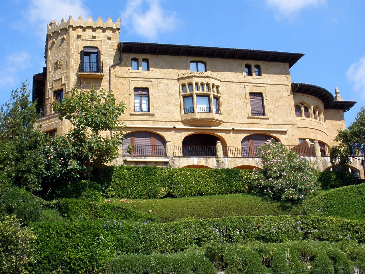 Palacio Ampuero, en Neguri, Guecho (Vizcaya)